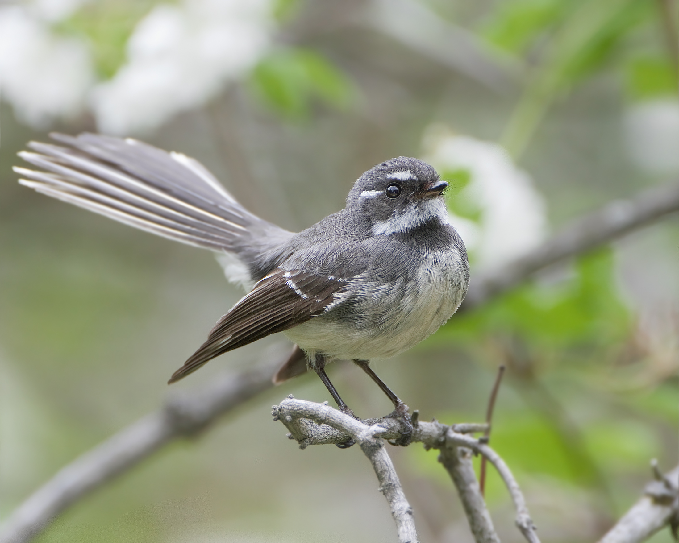 Grey Fantail